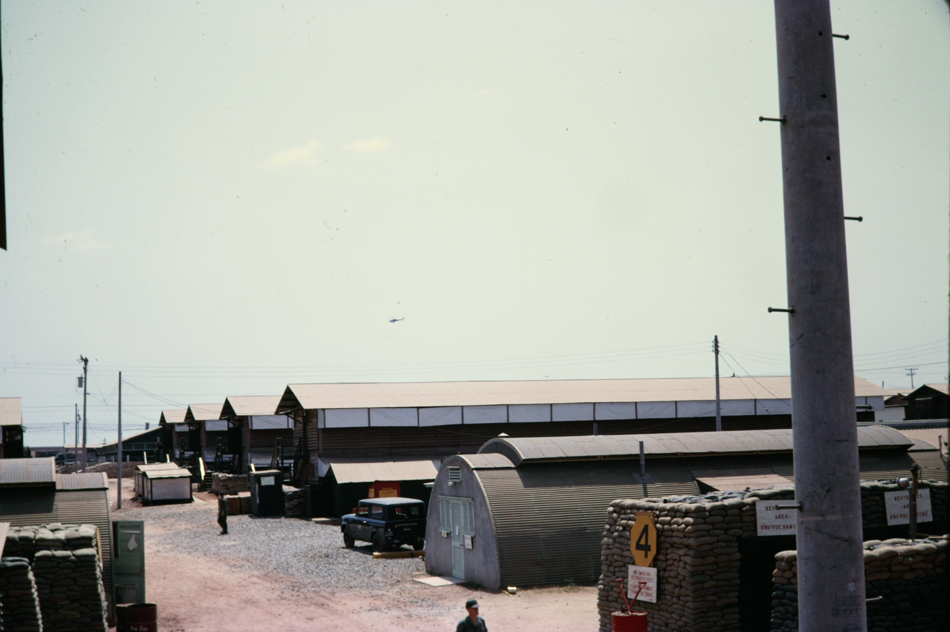 Barracks for enlisted men in Special Troops (headquarters battalion) USARV Long Binh Post